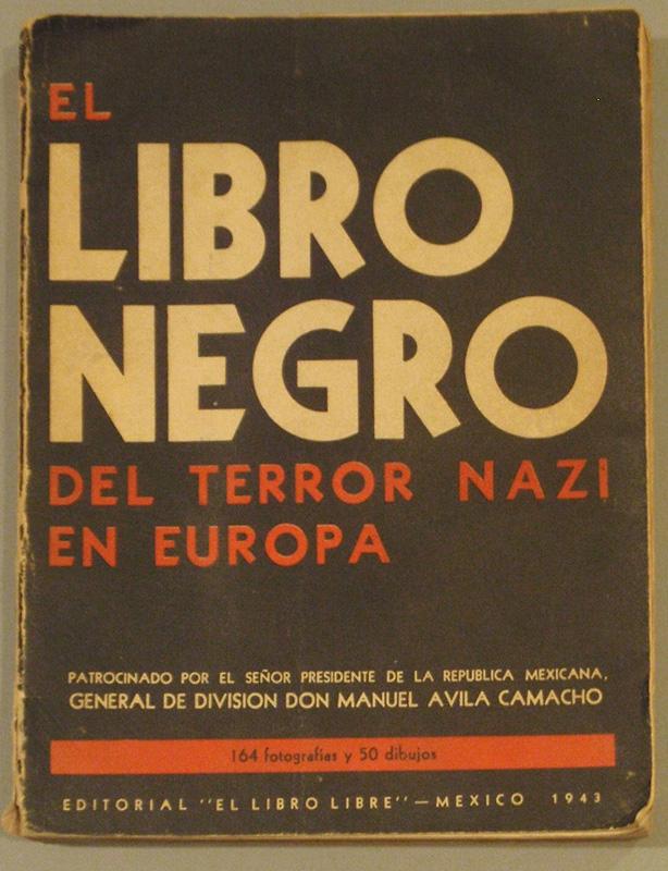 El libro negro del terror nazi en europa (The Black Book of Nazi Terror in Europe), Mexico City, 1943; published by Hannes Meyer at the Austrian/German exile publishing house "el libro libre" during WW2 in Mexico. Photography take in the British Museum, exhibition "Revolution Papers - Mexican Prints 1910-1960", 25th january 2010